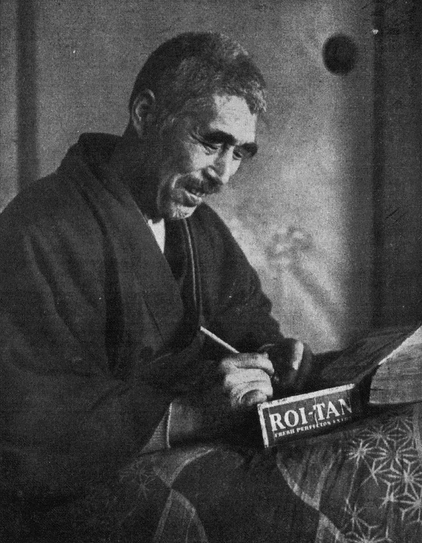 Japanese classic composer (1887 - 1965).